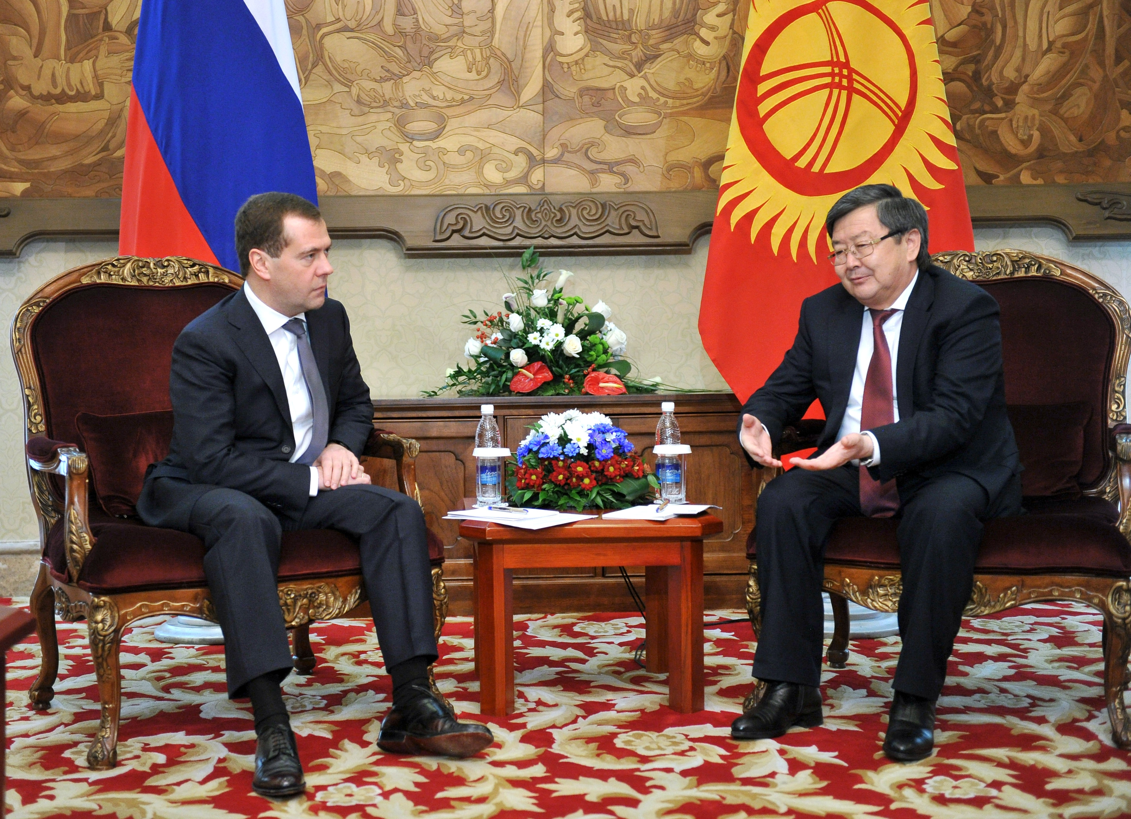 Prime Minister of Russia Dmitry Medvedev meets Prime Minister of Kirgizia Zhantoro Satybaldiyev.